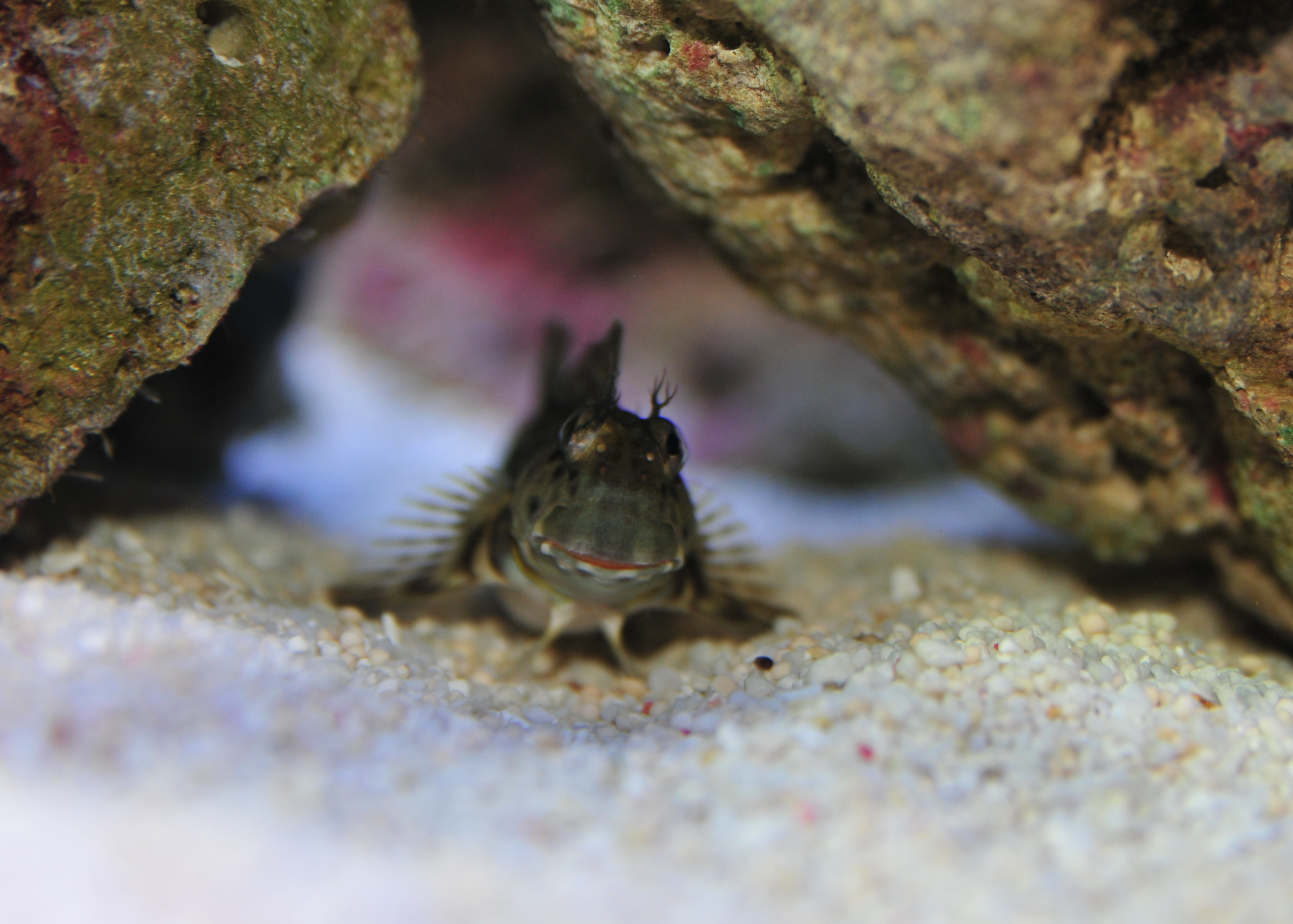 Lawnmower Blenny (Salarias fasciatus)